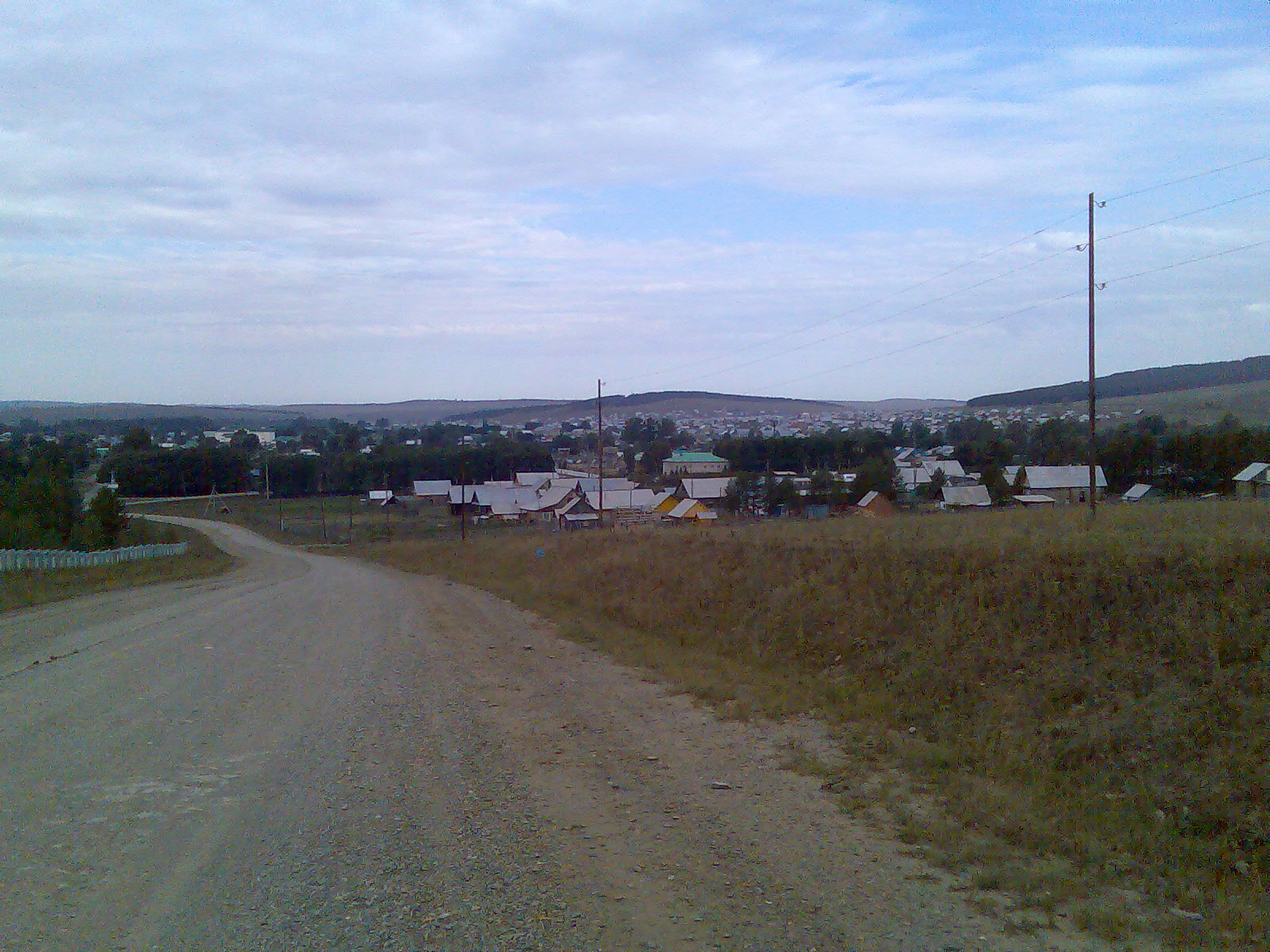 Entry into village Mrakovo, Kugarchinsky District, Bashkortostan, Russia. (Въезд в Мраково)